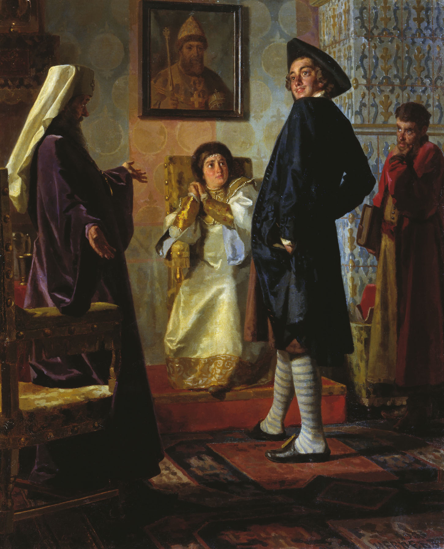 Nikolai Nevrev (1830-1904) Peter I in a foreign dress